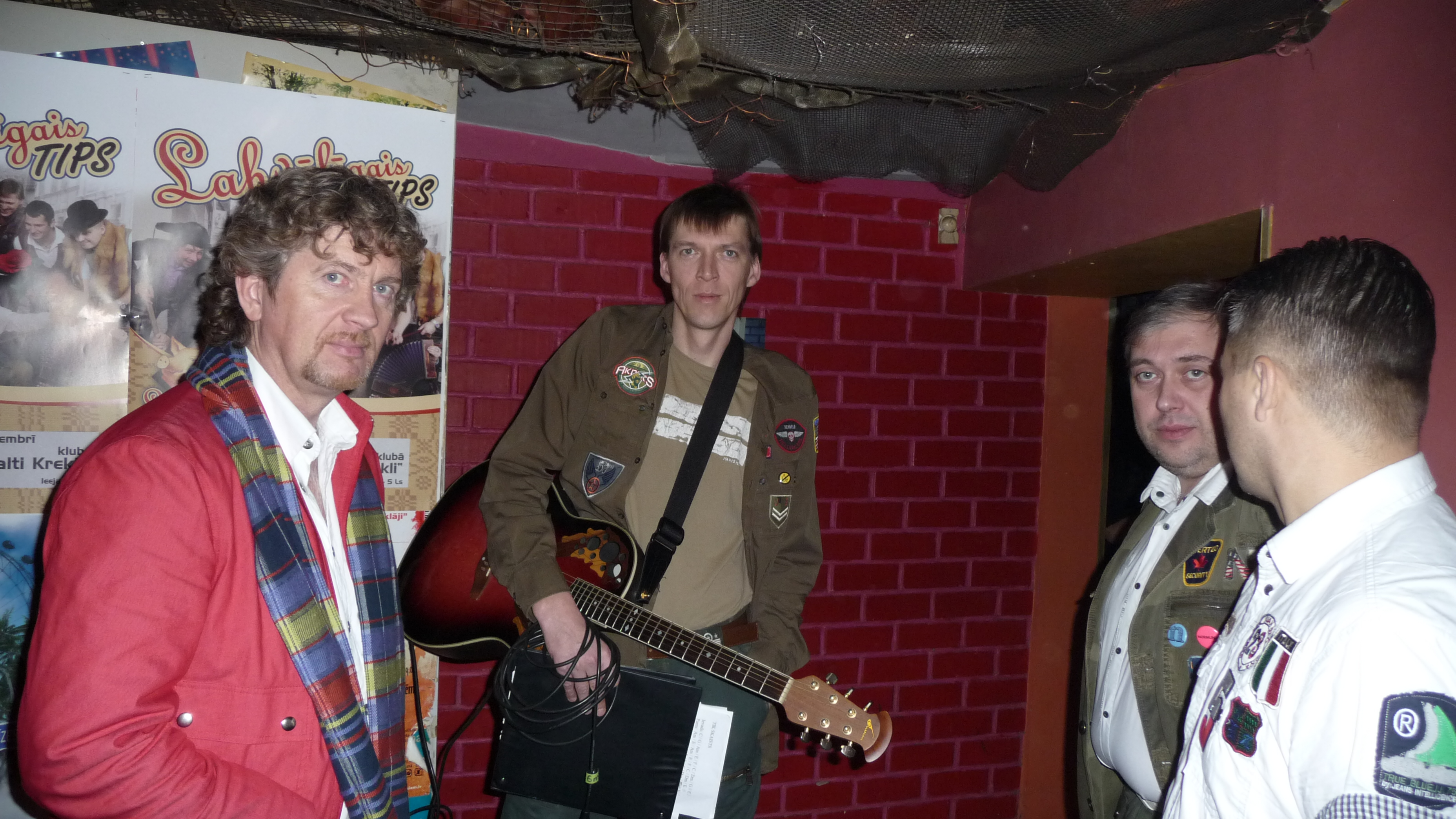 Latvian music band "Labvēlīgais tips" before concert. From left: Andris Freidenfelds, Ģirts Lūsis, Normunds Jakušonoks, Kaspars Tīmanis